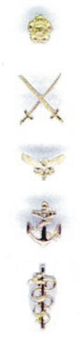 Ribbon bar emblem for the Bar and Arm of the Service insignia for ribbon of the Nkwe ya Gauta - Golden Leopard, post-nominal letters NG, awarded to persons who have distinguished themselves by performing acts of exceptional bravery during military operations